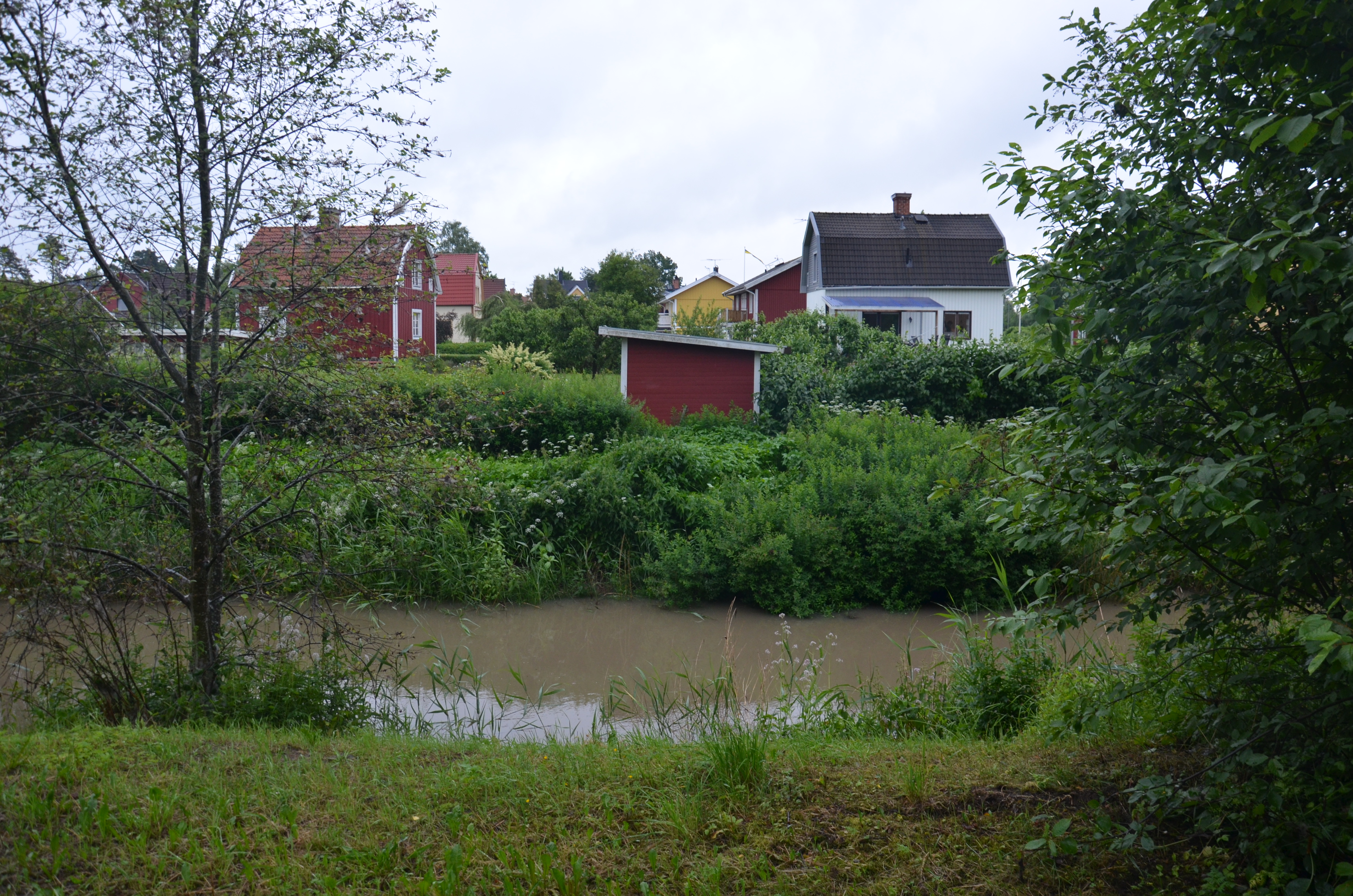 Hagaby, Örebro. Photo taken eastwards from the other side of Lillån